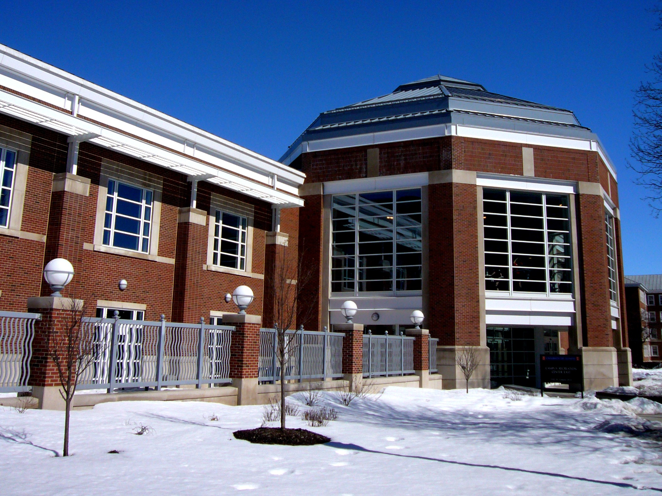 The Campus Recreation Center East of the University of Illinois at Urbana-Champaign. Photo by Aries Liang